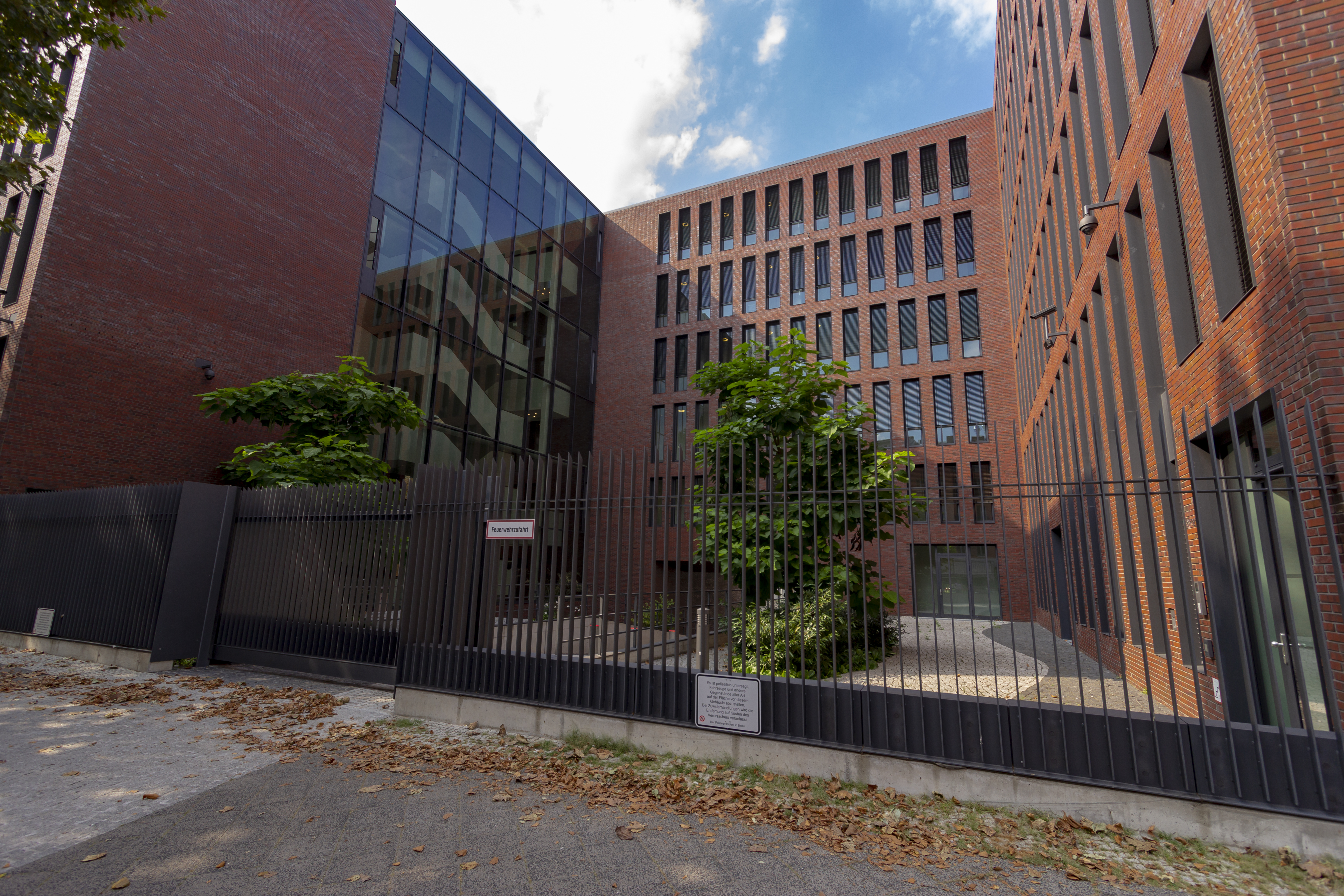 Headquarters of the Federal Intelligence Service of the Federal Intelligence Service in Berlin.